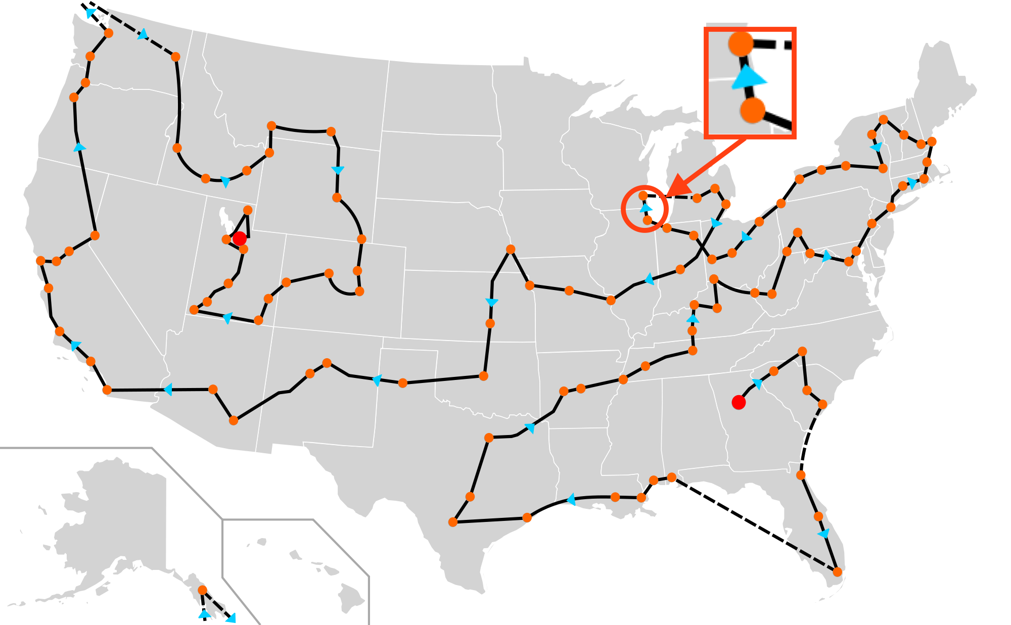 Map of 2002 Winter Olympic torch relay, highlighting the segment of the route that traveled place between Chicago and Milwaukee Map derived from File:2002 Winter Olympics torch relay route.svg